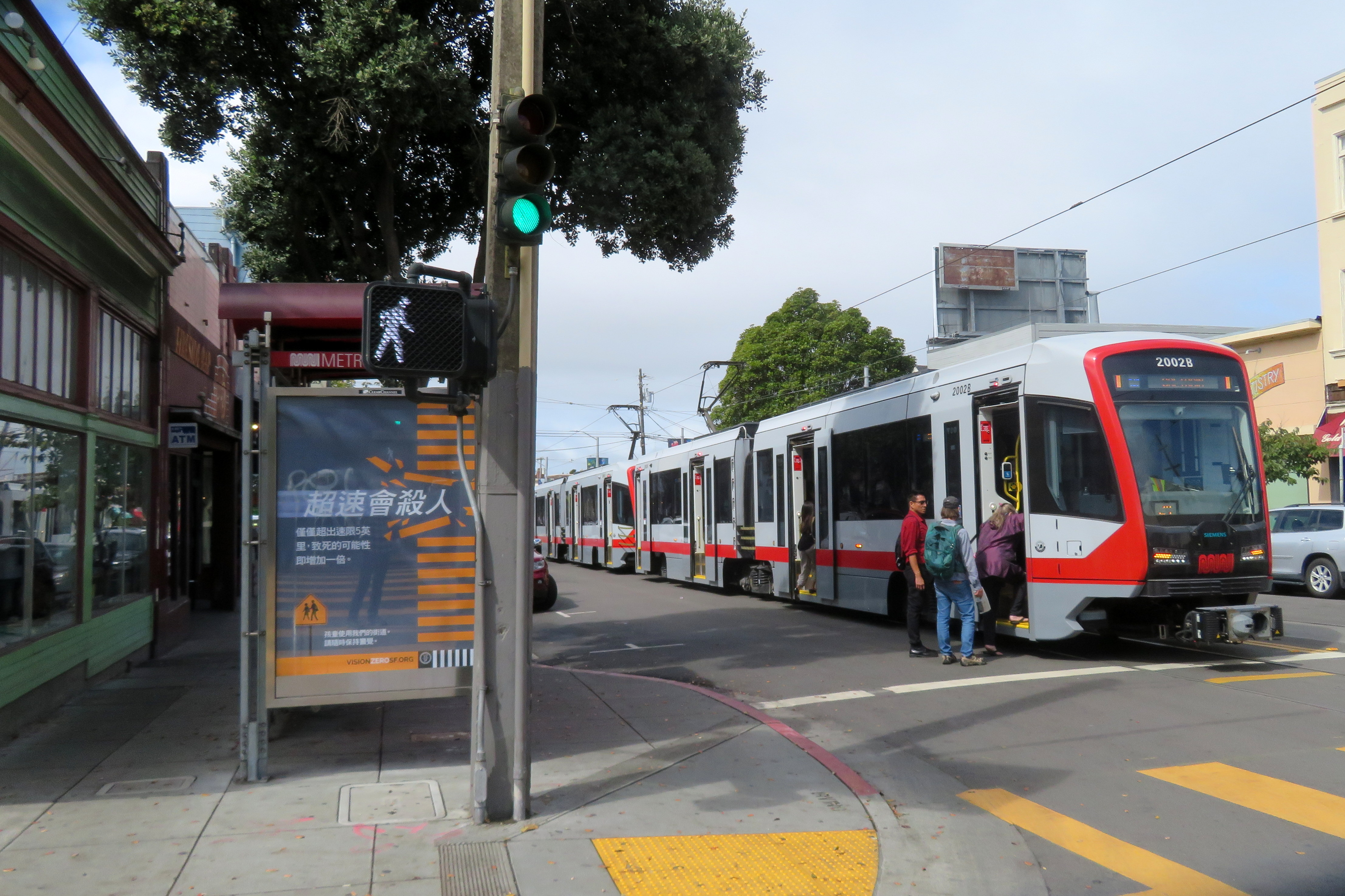 An inbound train at Irving and 7th Avenue station in September 2019